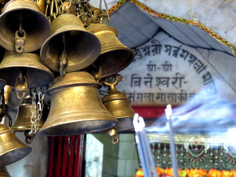 Chitteswari Sarbamangala Temple Kalibari main temple door with bell